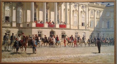 Parade of the Landowners Before Franz Joseph I